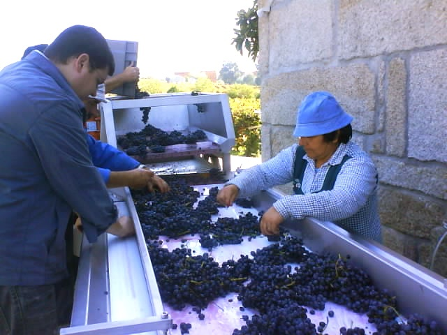 Touriga Nacional Sorting the Touriga Nacional Grapes Barão de Nelas Vinyards Barão de Nelas Vineyards